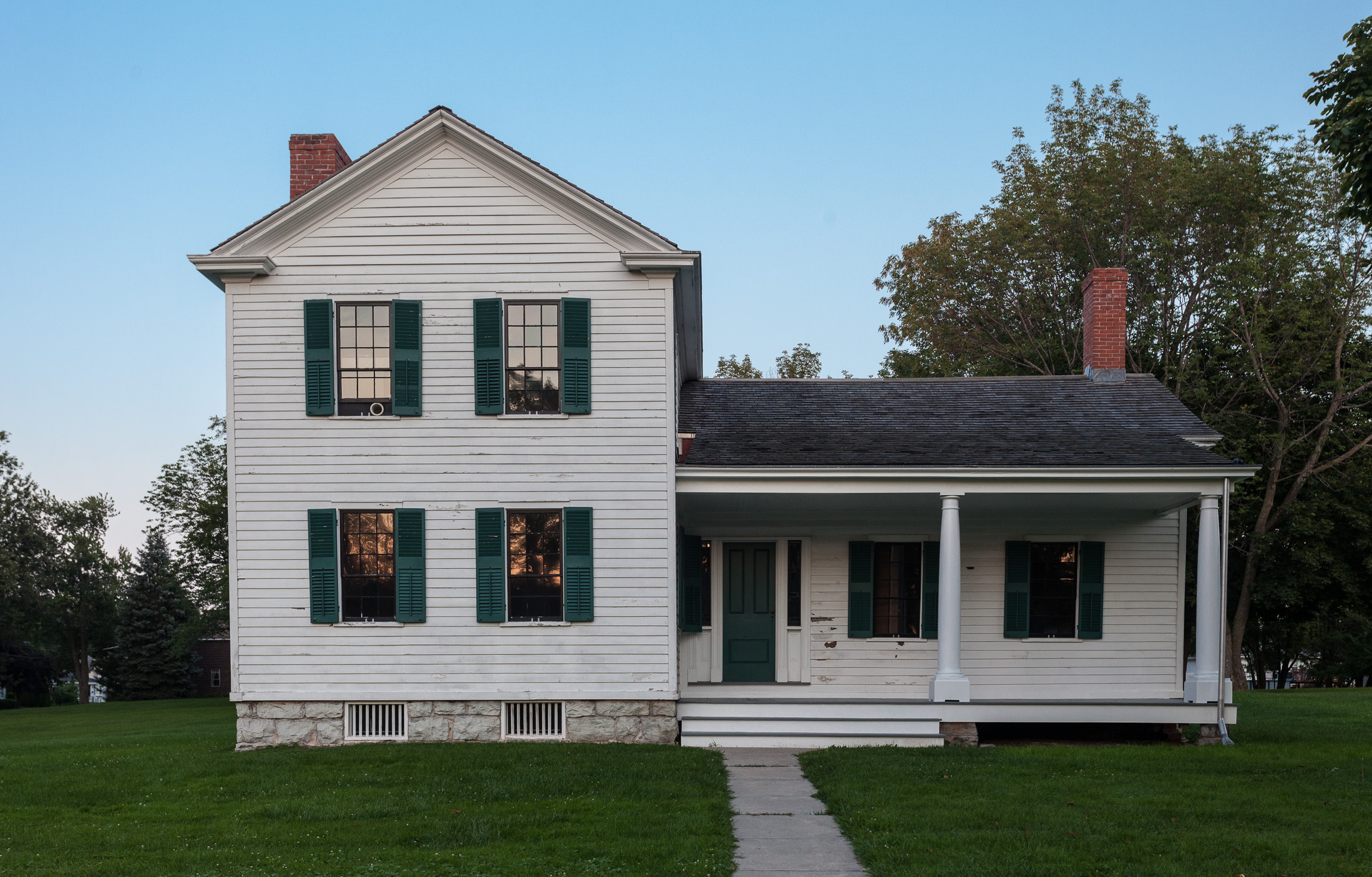 Elizabeth Cady Stanton House (Seneca Falls, New York), 32 Washington St. Seneca Falls